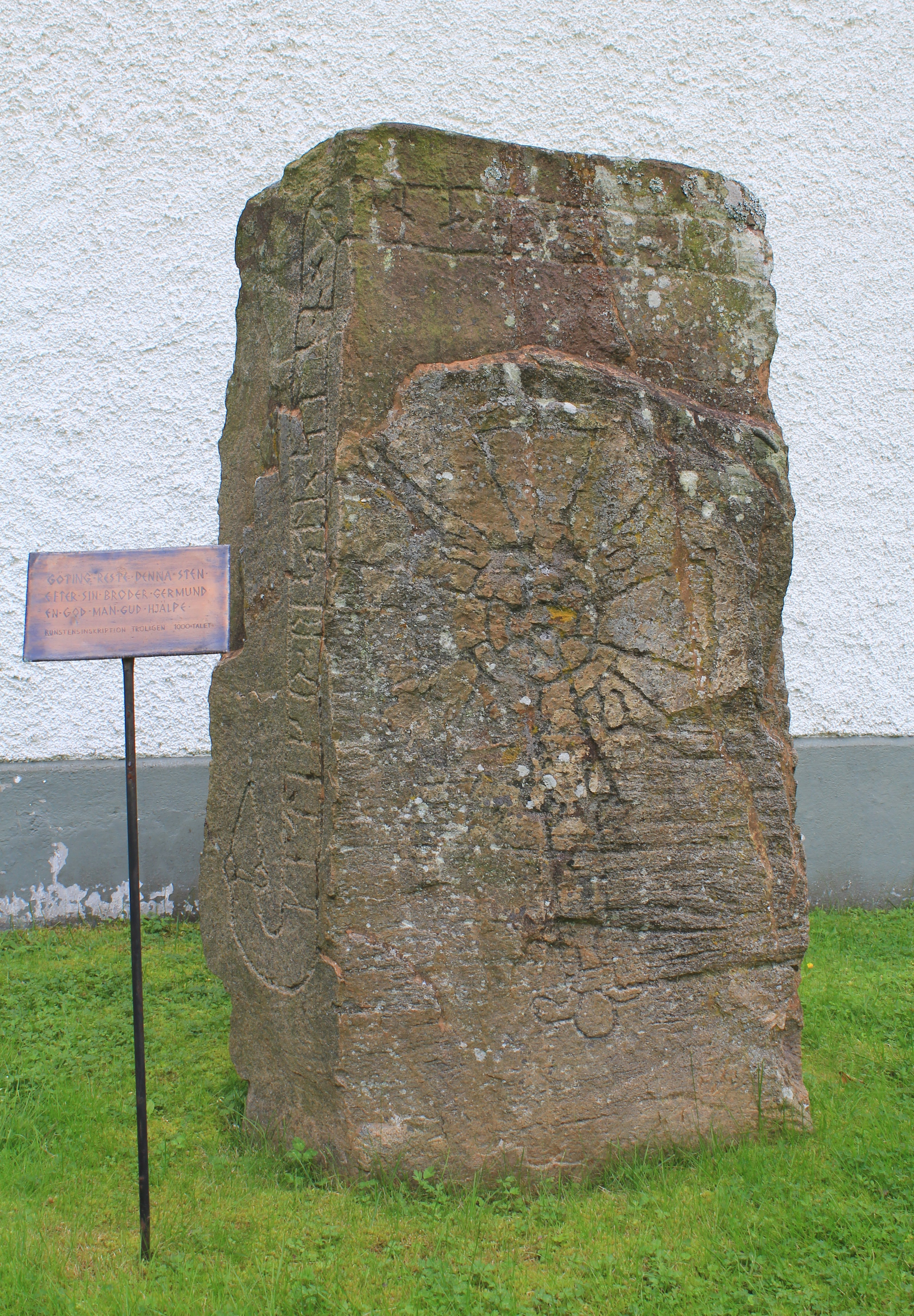 The runestone Vg 8 outside of Hjälstads church in Töreboda kommun.